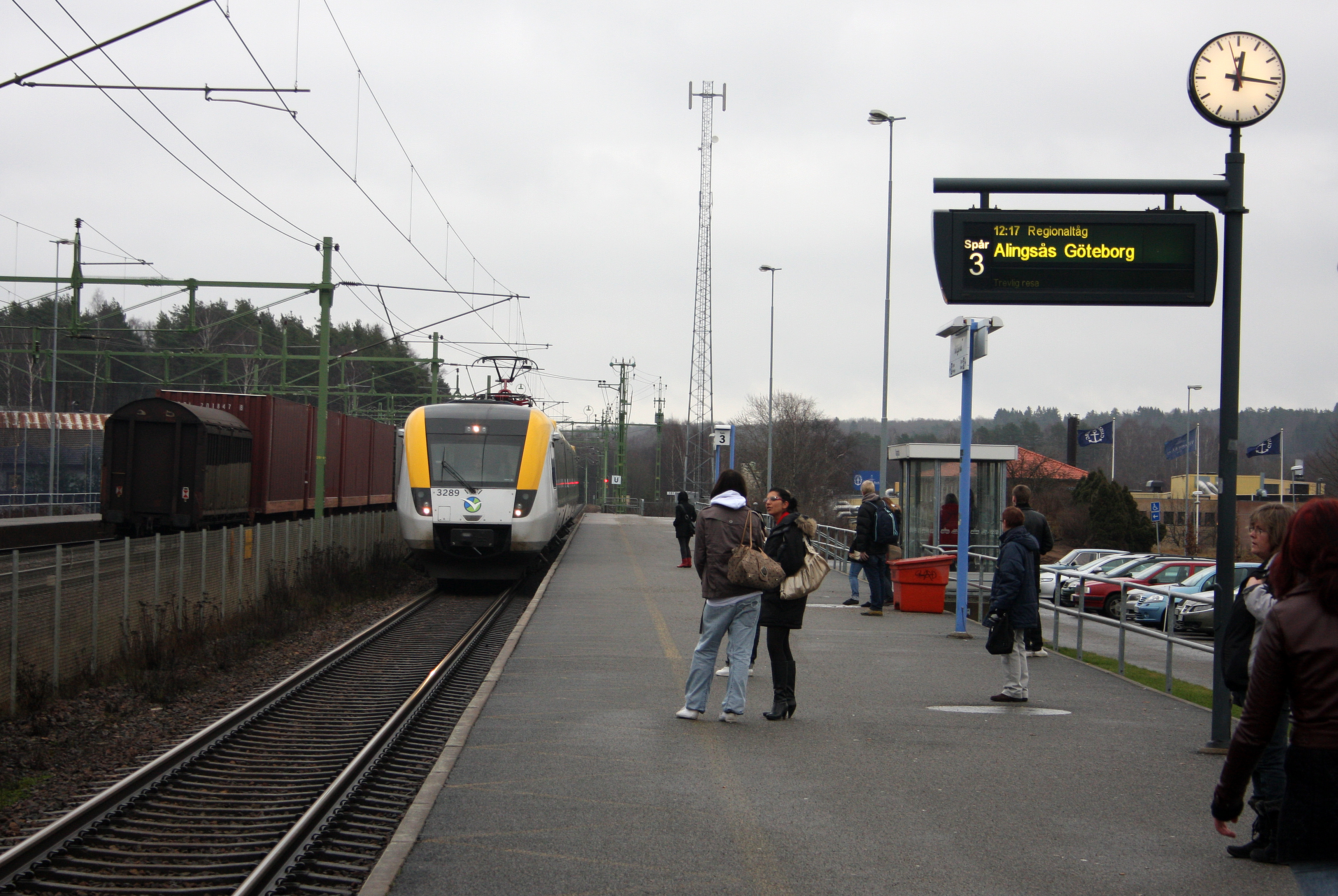 Regional Västtrafik train arriving in Vårgårda, Sweden